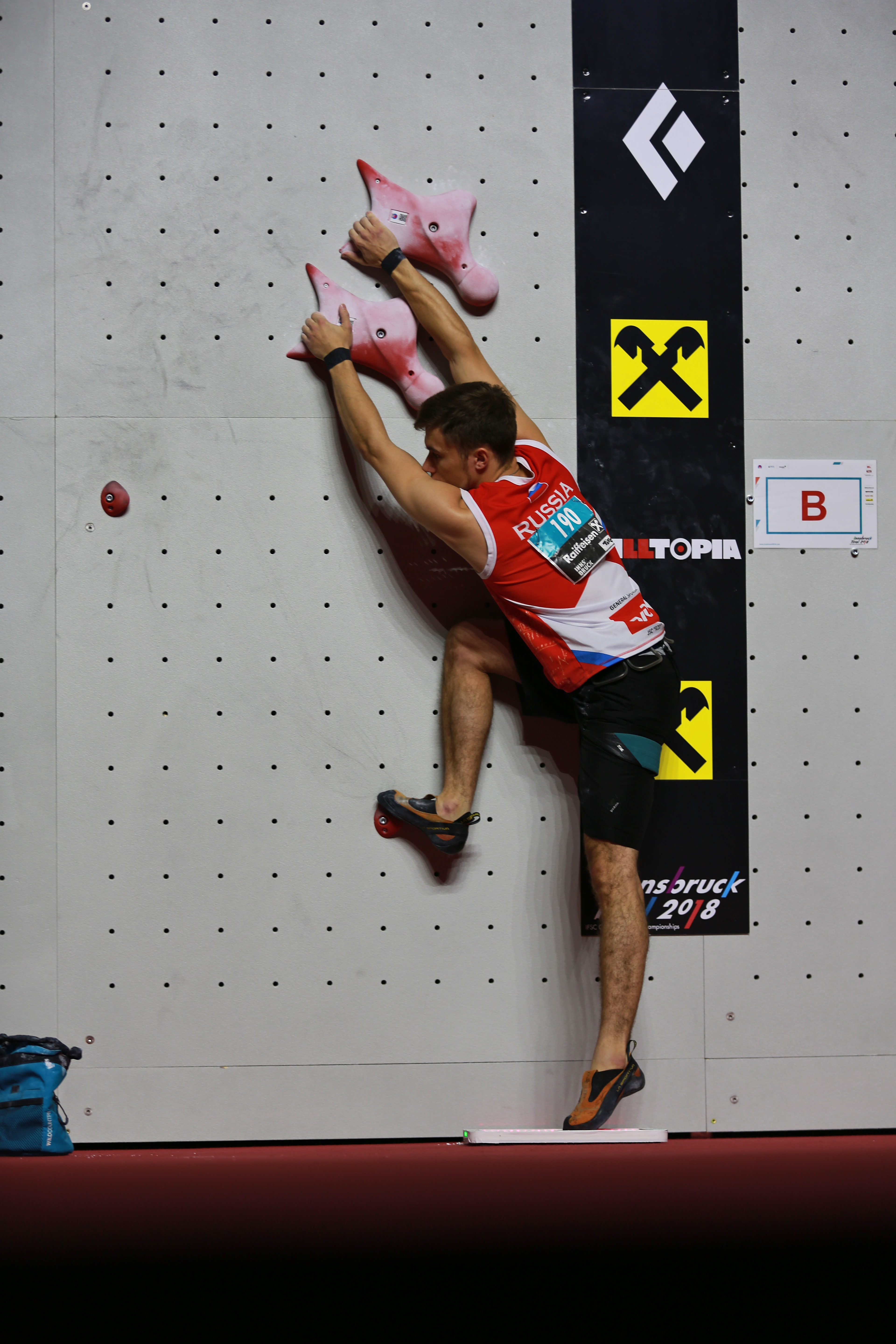 Climbing World Championships 2018 Speed Eighth-finals